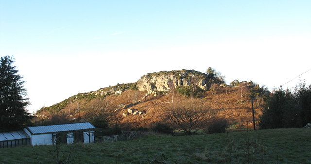 Caer Carreg-y-Fran An minor Iron Age fort captured in the late afternoon sunlight. The meaning of Caer Carreg-y-Fran is 'raven's rock fort'.